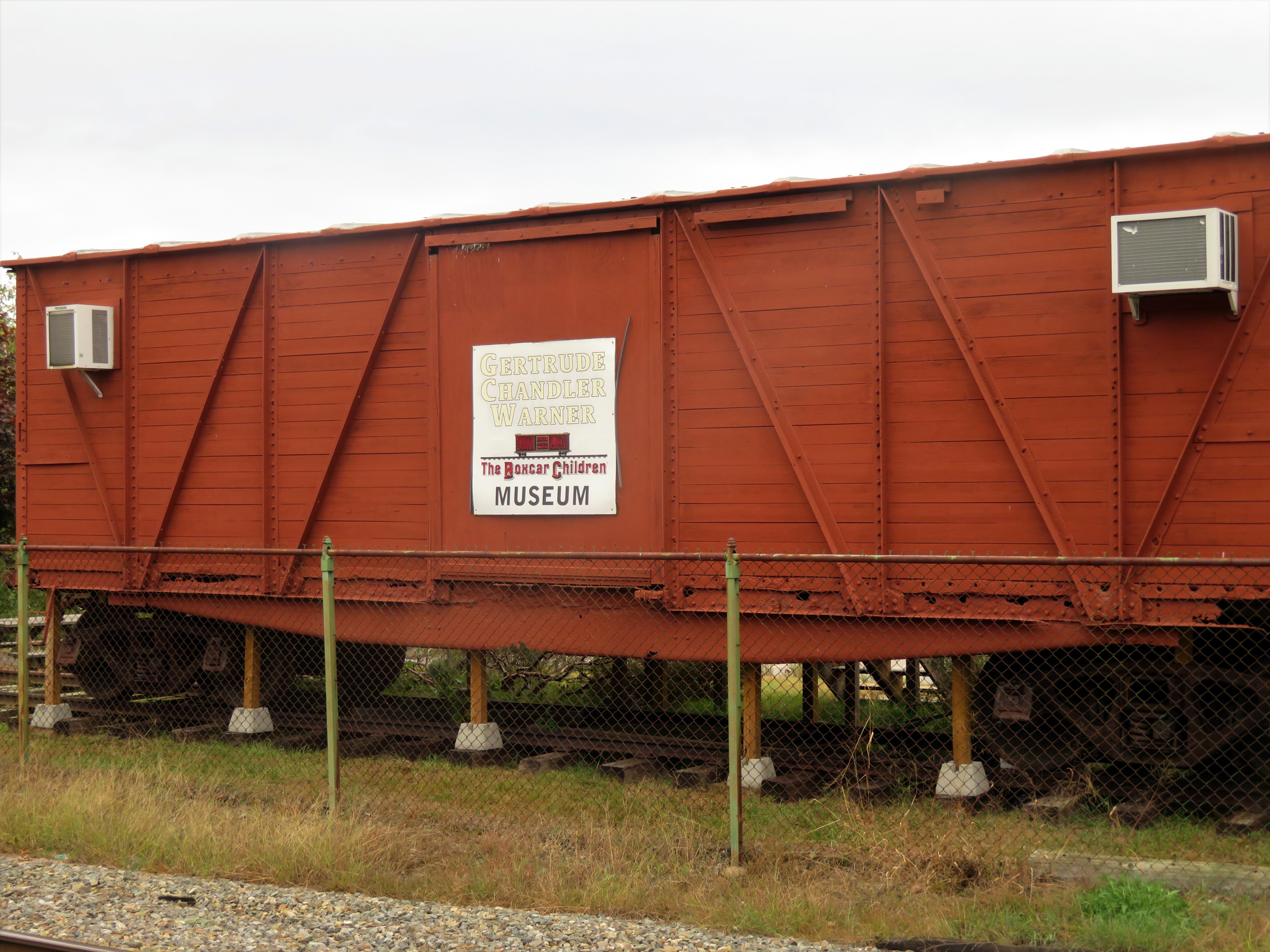 Boxcar at the Gertrude Chandler Warner Museum in October 2018